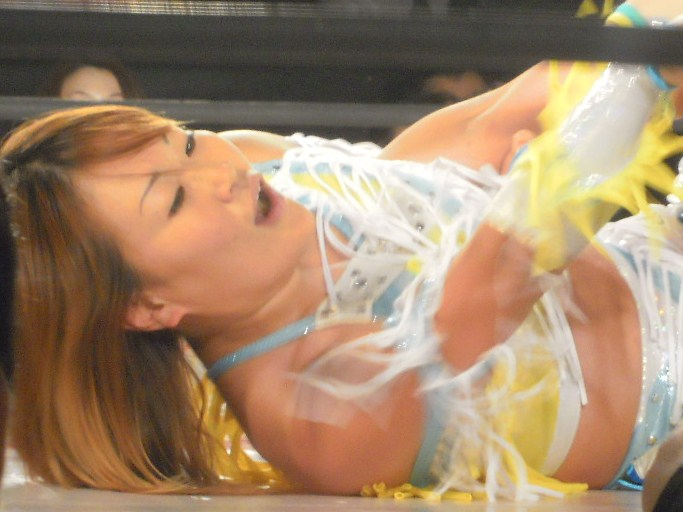 Japanese professional wrestler,Chikayo Nagashima.July 11 2010,OZ ACADEMY Shinjuku FACE.